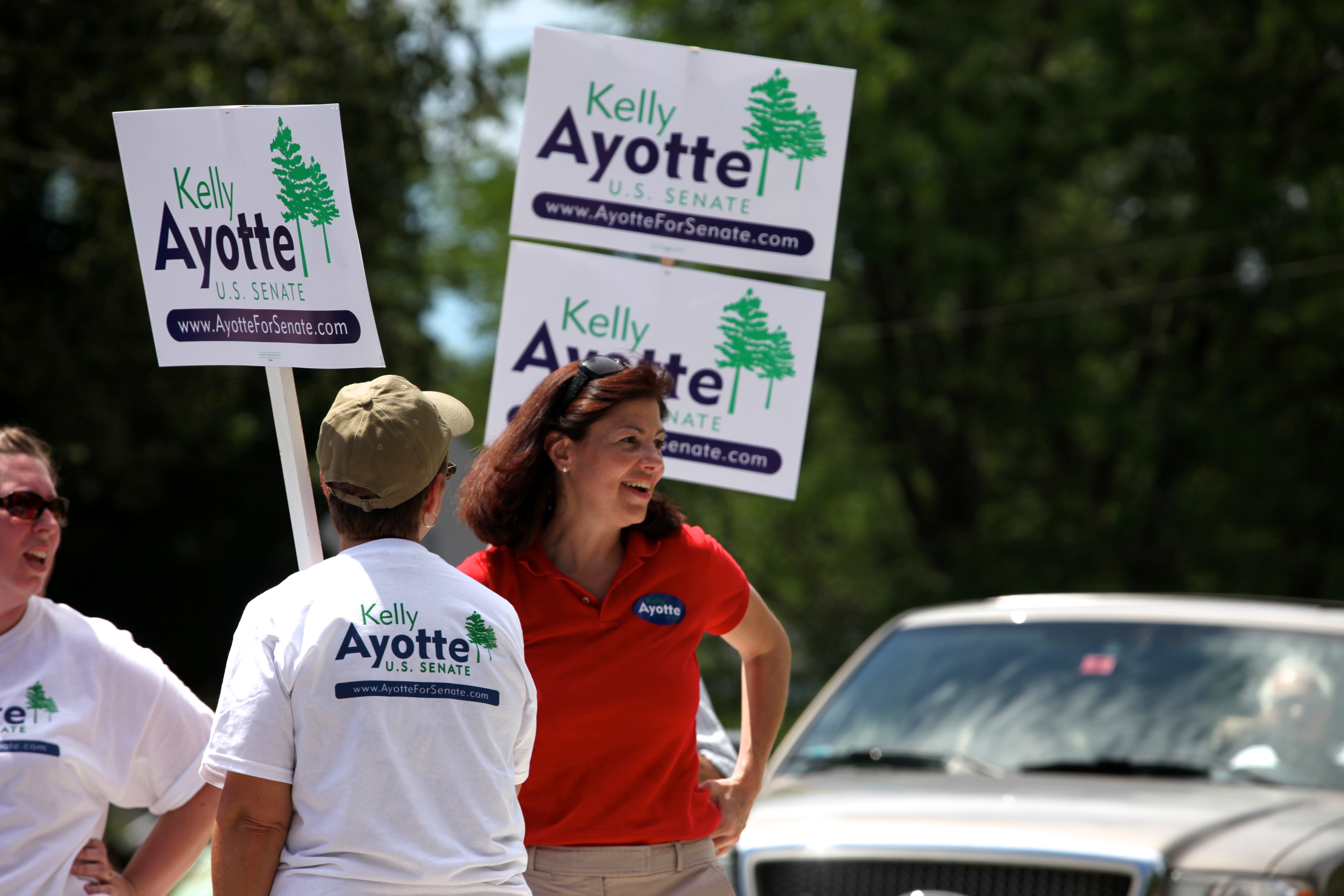 Kelly Ayotte in Amherst, New Hampshire, at the 4th of July Parade.